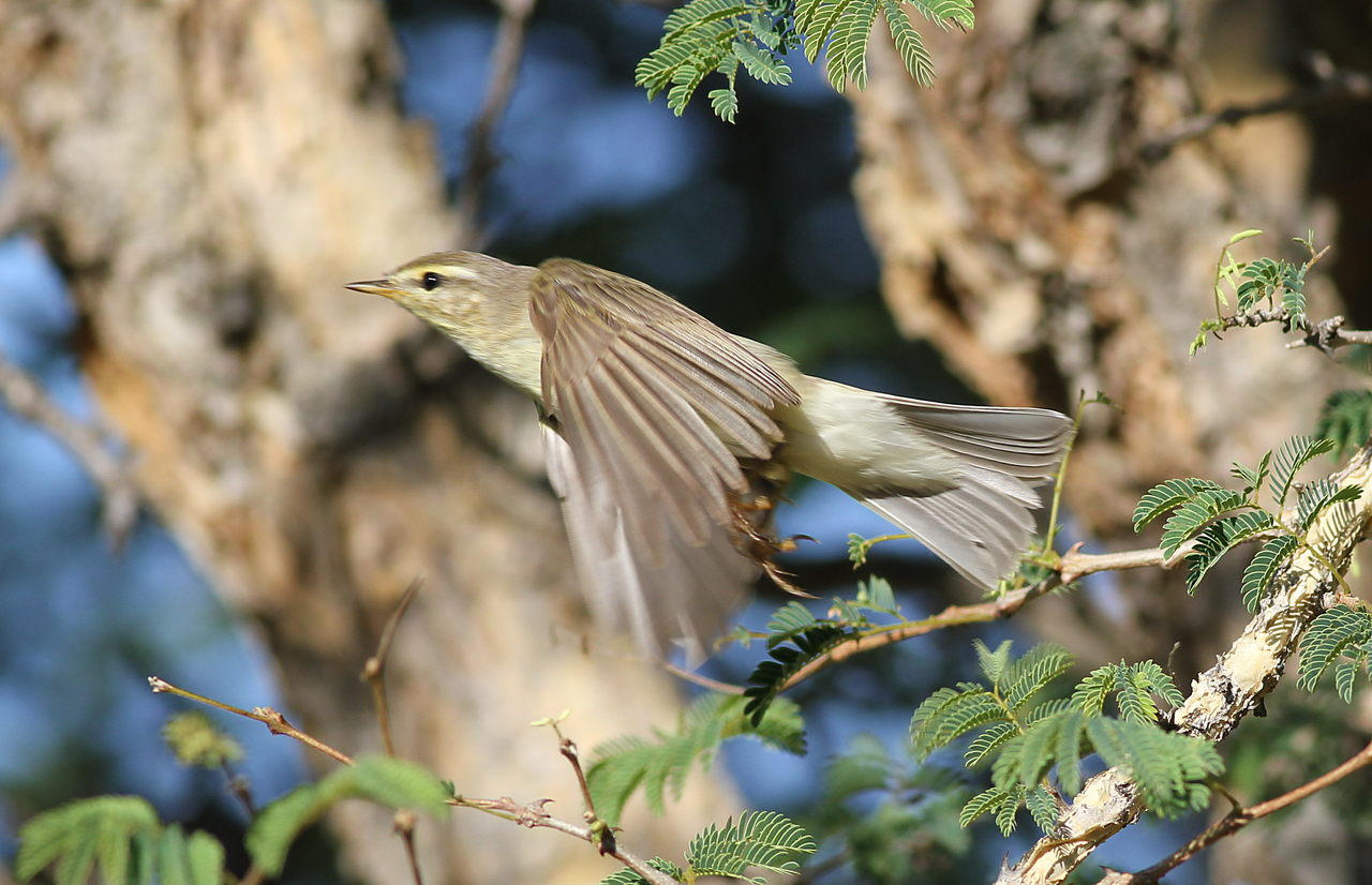 Willow warbler, Phylloscopus trochilus, at Marakele National Park, Limpopo, South Africa